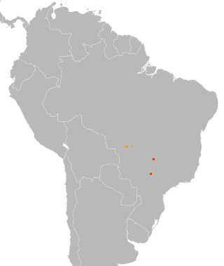 Distribution map of blue-eyed ground dove based on IUCN data